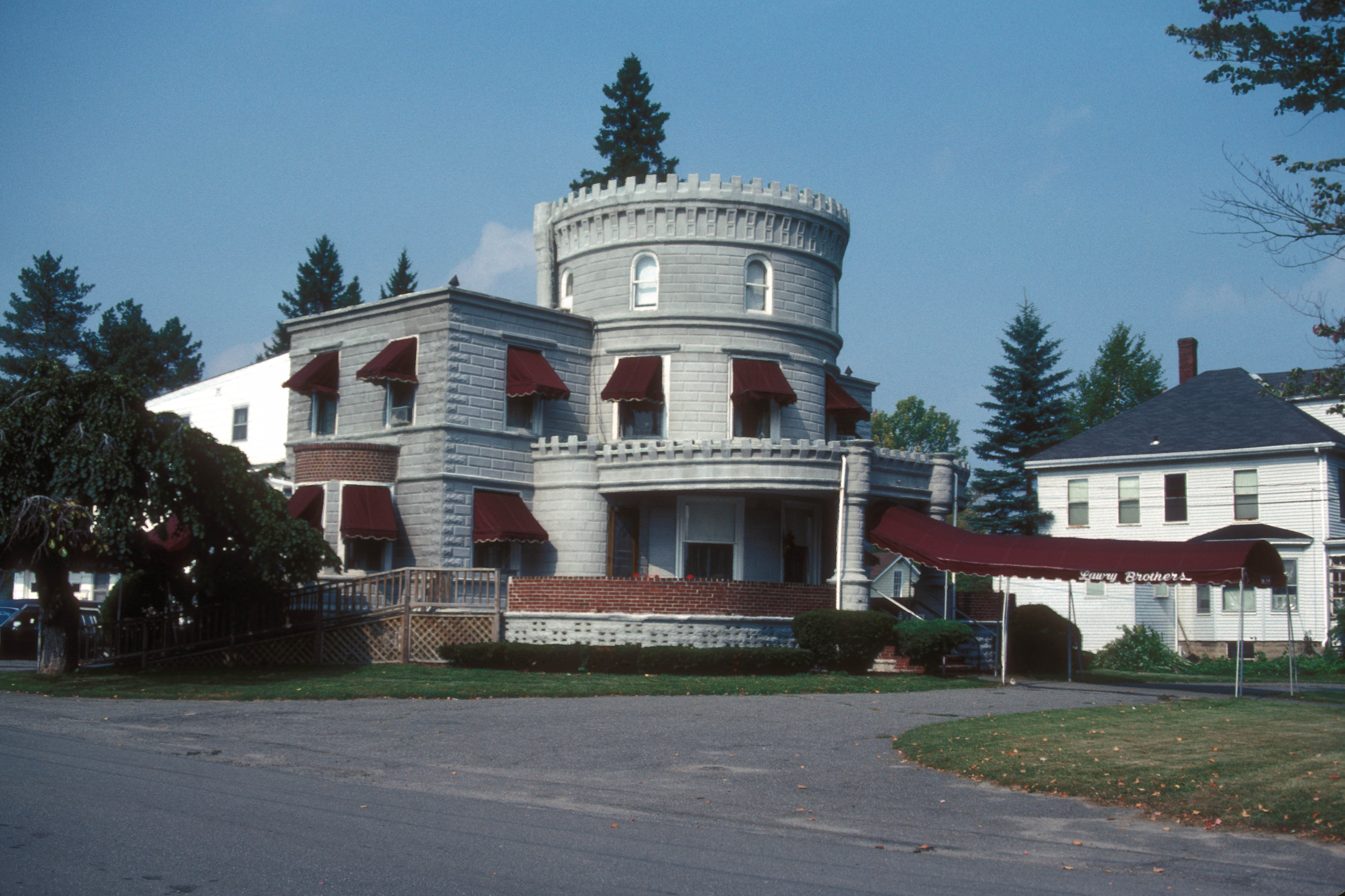 1910-1913; RARE VERNACULAR ARCHITECTURAL “CASTLE” BUILT WITH CEMENT BLOCKS BY THE FOUNDER OF MAINE’S ONCE EXTENSIVE TROLLEY SYSTEM. AT THE TIME OF HIS FUNERAL ALL TROLLEY CARS IN MAINE STOPPED FOR A BRIEF PERIOD. NOW A FUNERAL PARLOR IN FAIRFIELD